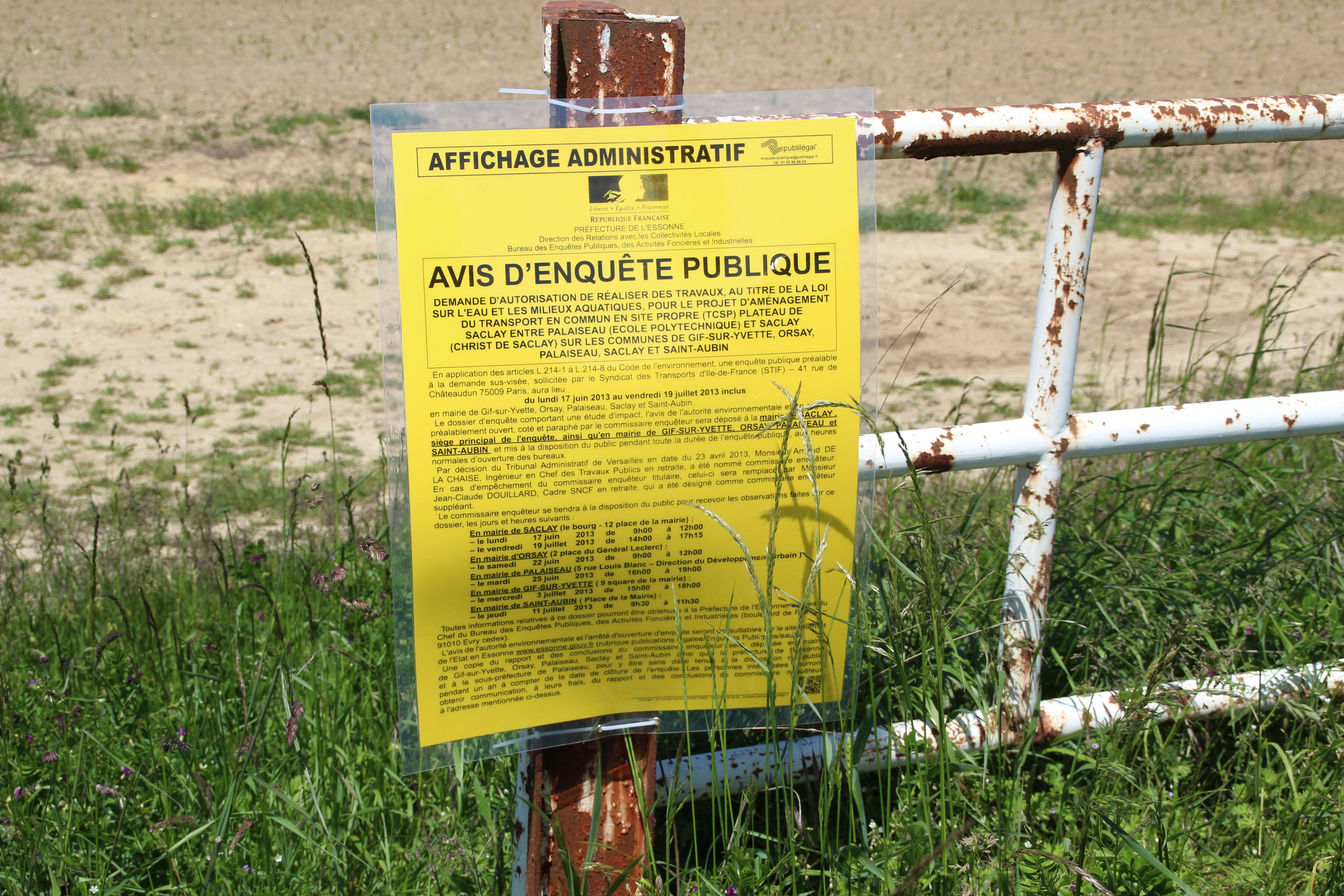 Saclay's plateau Francis Perrin street on June 4, 2013 in Gif-sur-Yvette, France. Object location48° 42′ 45.94″ N, 2° 09′ 52.78″ E